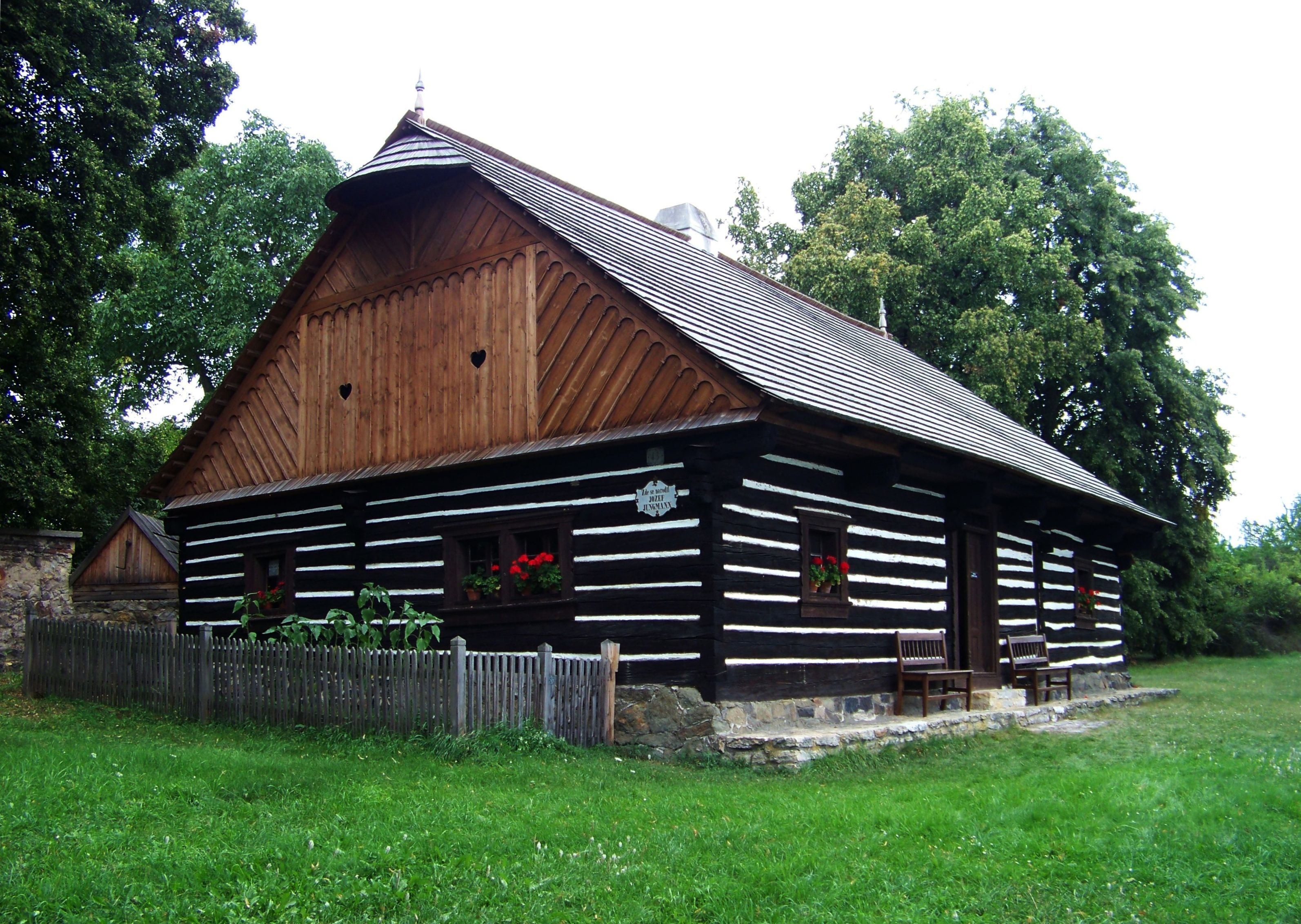 Hudlice, Beroun District, Central Bohemian Region, the Czech Republic. Bří Jungmannů 43, birth house of Josef Jungmann.